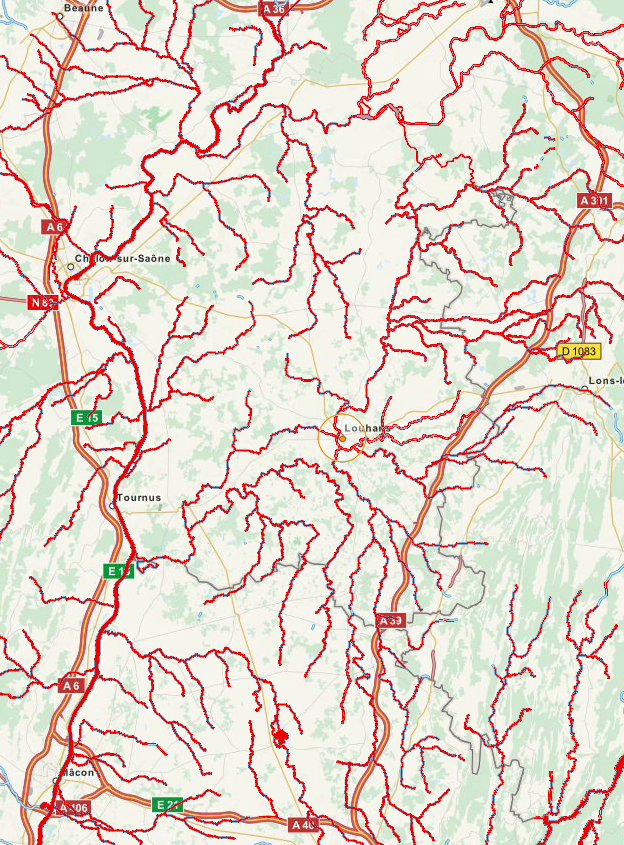 Karte mit den rot eingezeichneten Biefs in der BresseCarte avec les Biefs en Bresse (en rouge) This map may be incomplete, and may contain errors. Don't rely solely on it for navigation.